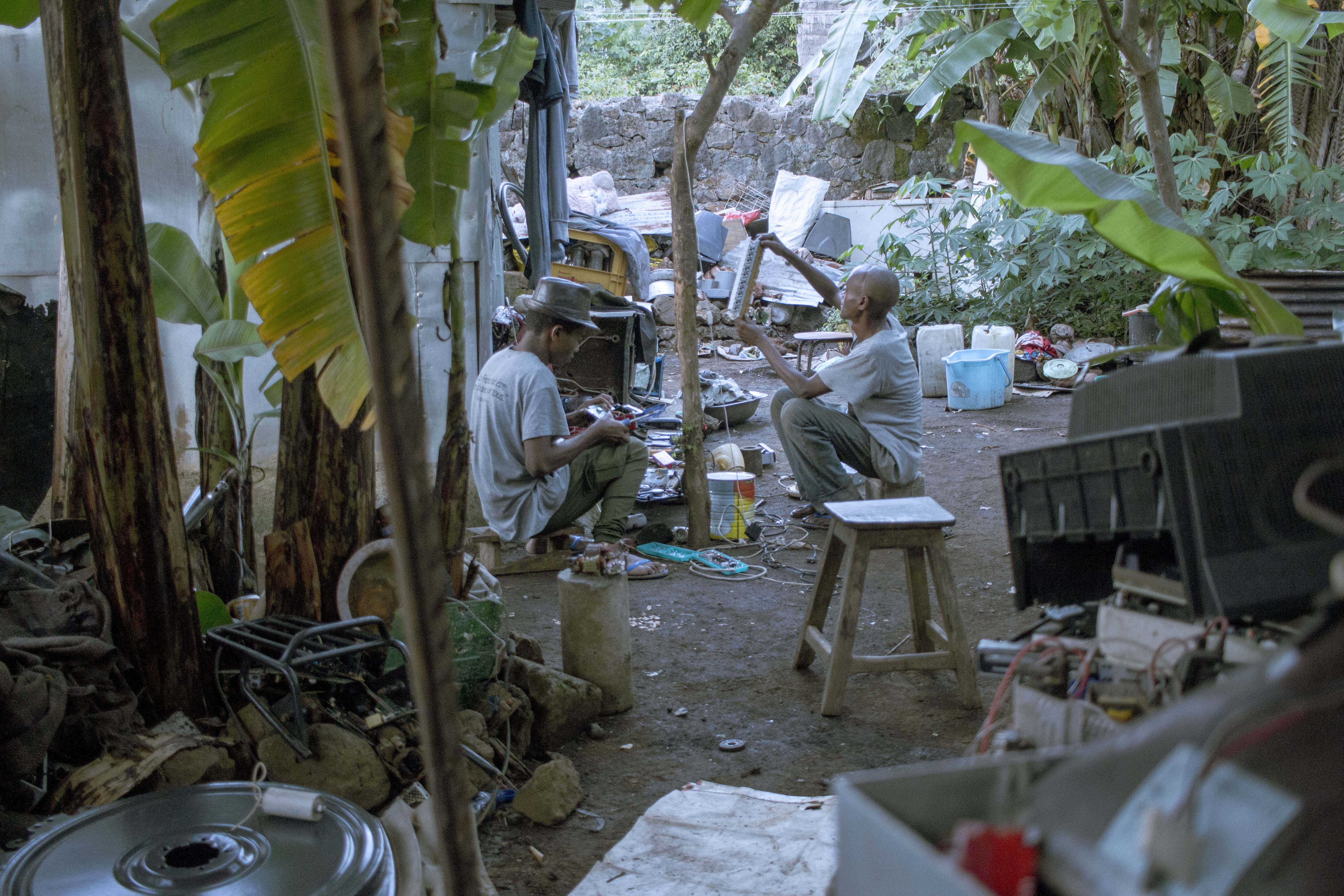 he repairs every electronical device - from Laptops to radios, even motocycles. This is an image of "African people at work" from Comoros